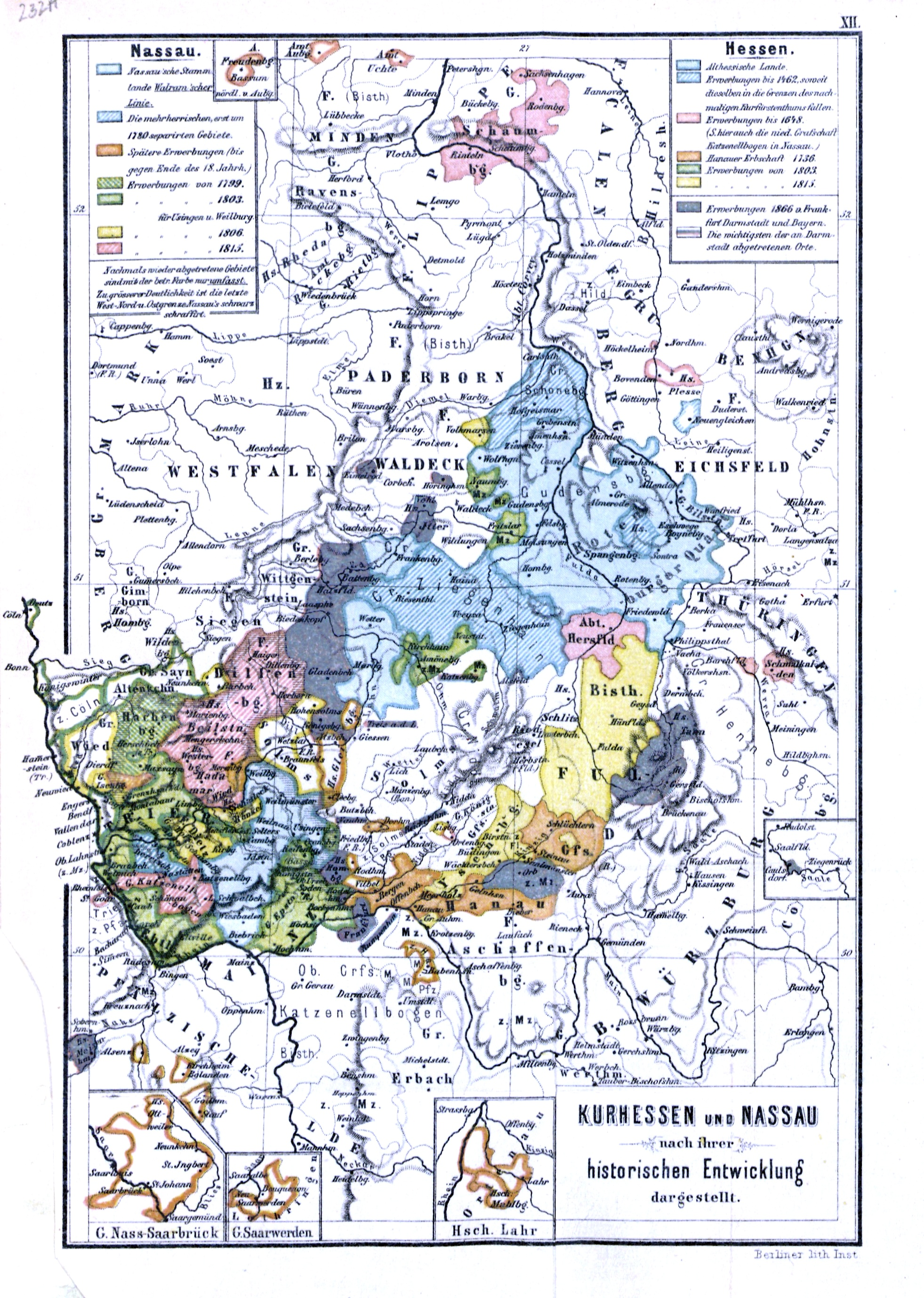 Image extracted from page 265 of Die Territorialgeschichte des brandenburgisch preussischen Staates, im Auschluss an zehn historische Karten übersichtlich dargestellt, Fix W. Original held and digitised by the British Library. Note: The colours, contrast and appearance of these illustrations are unlikely to be true to life. They are derived from scanned images that have been enhanced for machine interpretation and have been altered from their originals.